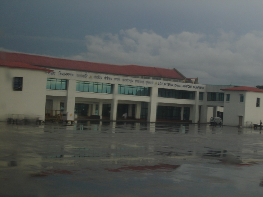 Lokpriya Gopinath Bordoloi International Airport, the largest airport and gateway to India's North Eastern States.